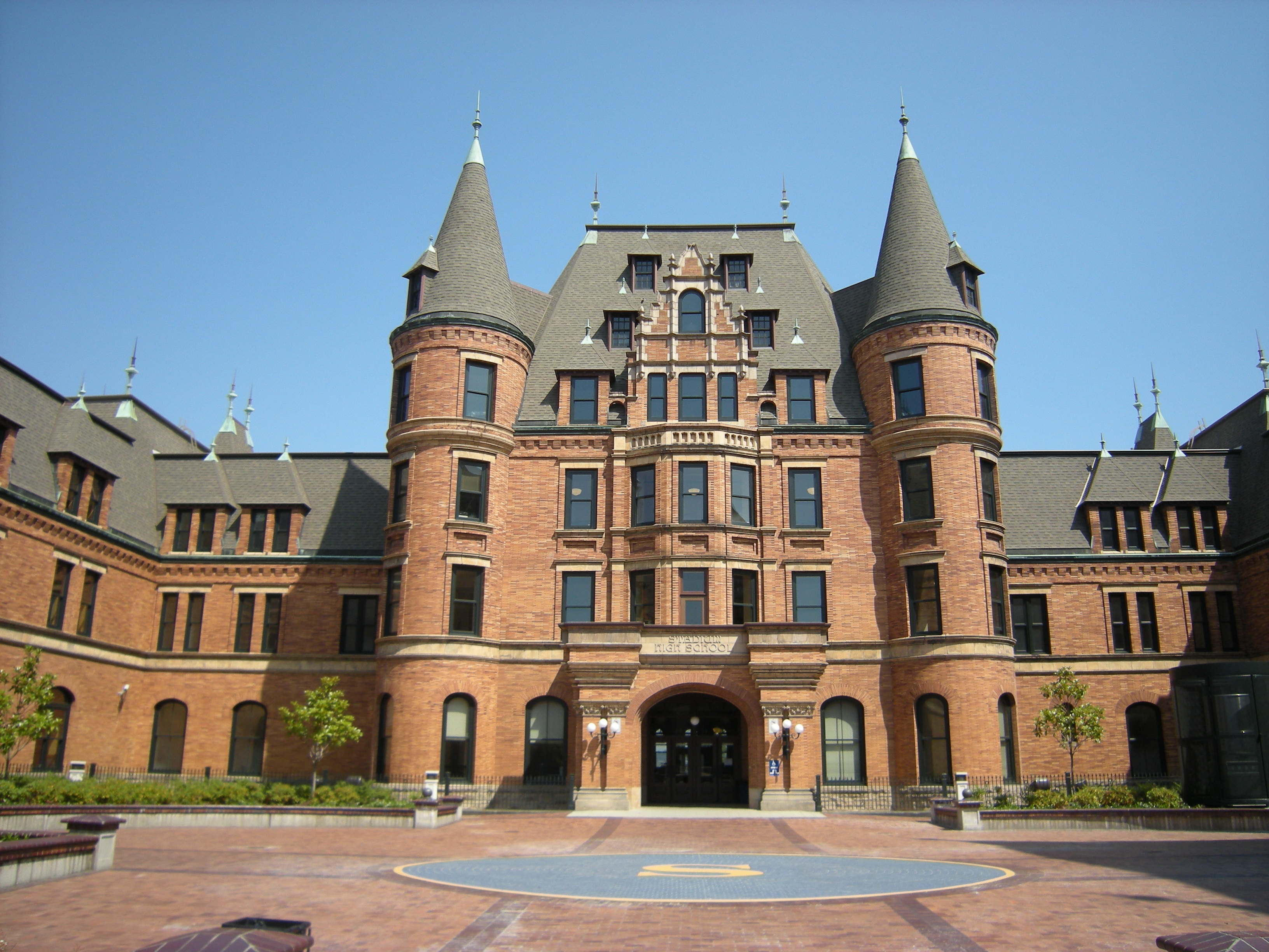 Stadium High School, Tacoma, Washington.